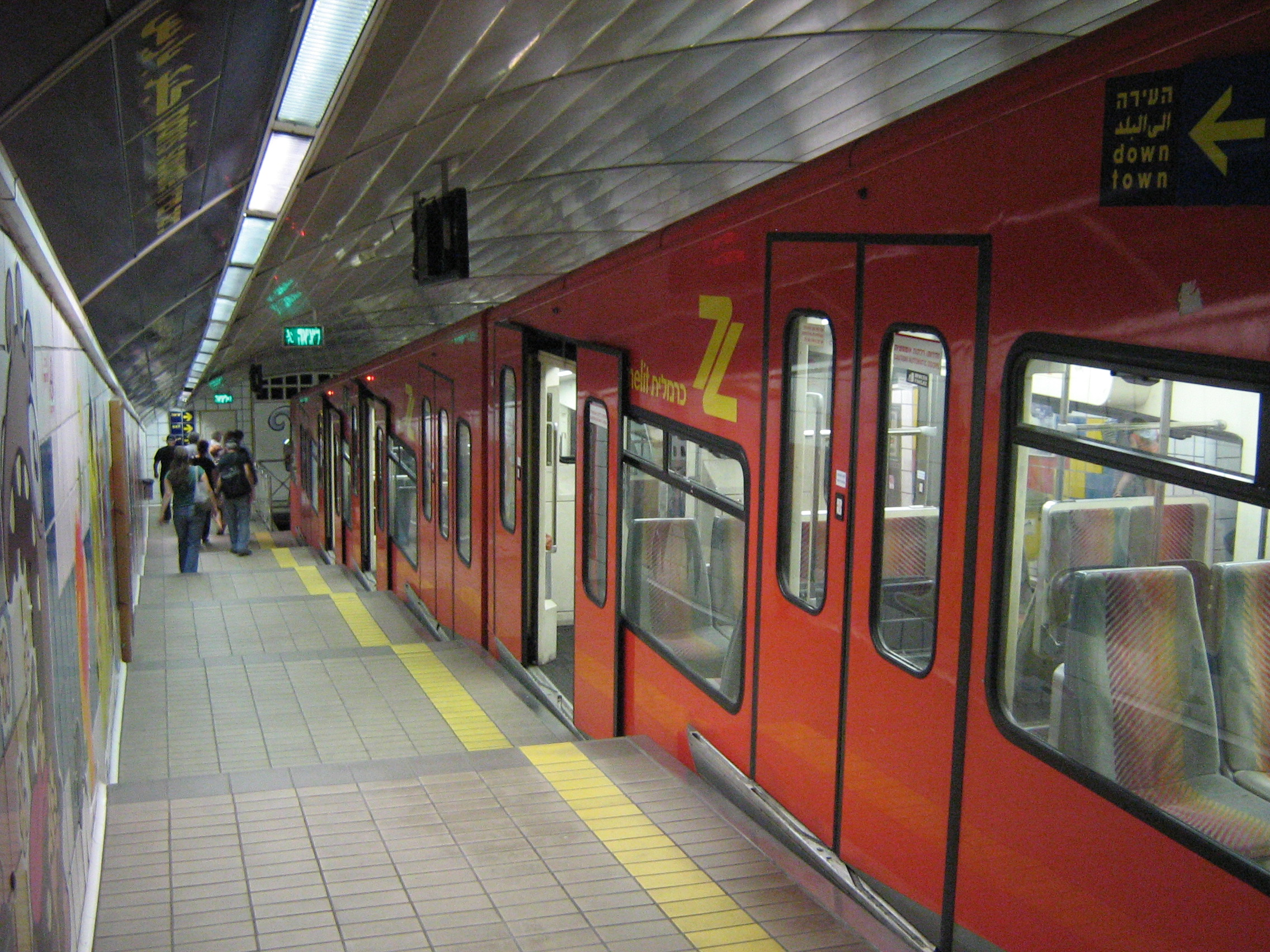 Carmelit funicular rail waggon in Kikar Paris station (Paris Square)